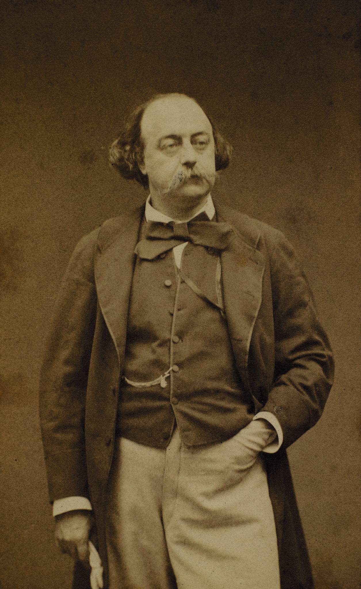 Gustave Flaubert photographed by Etienne Carjat.